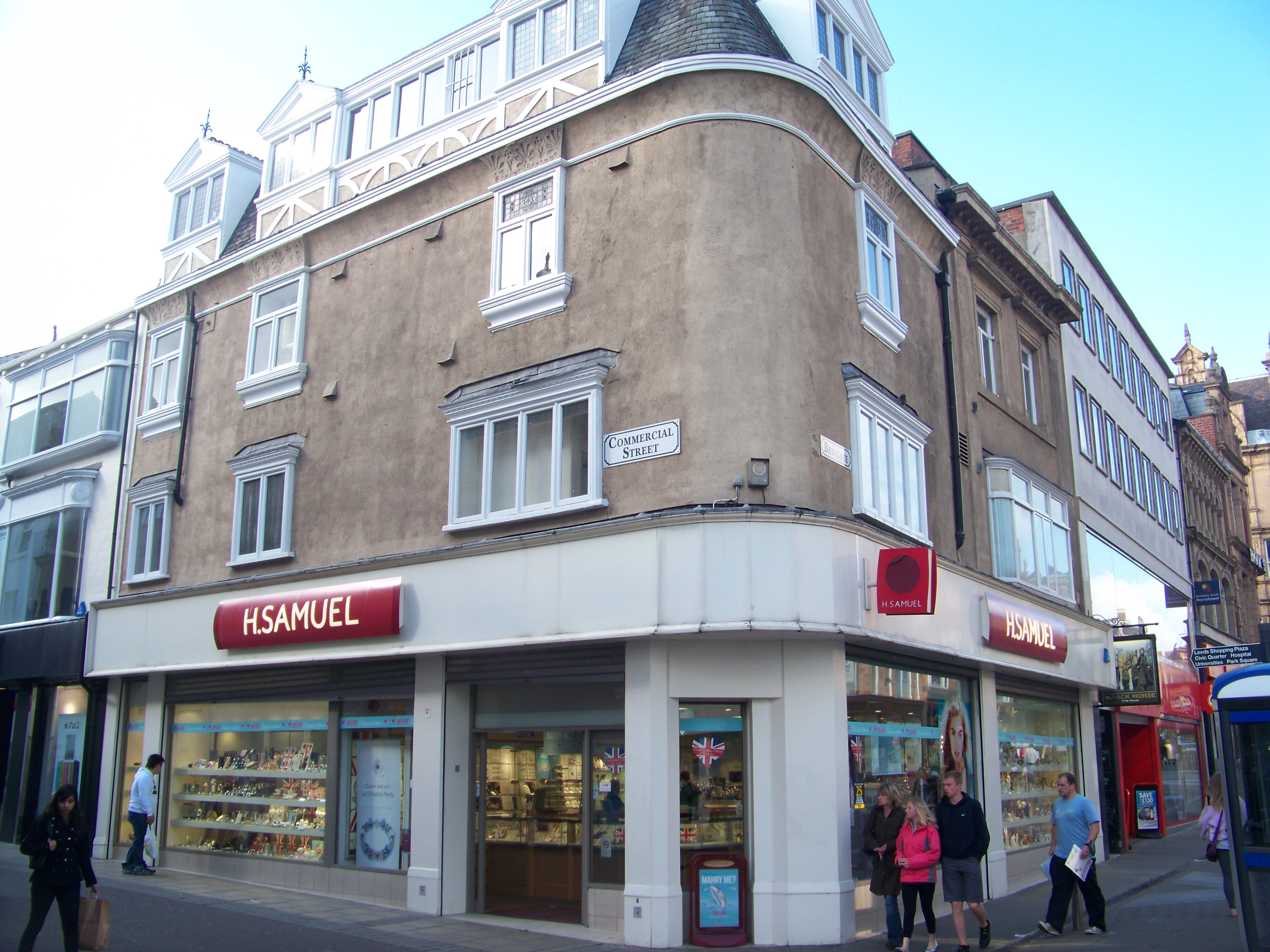 H. Samuel jewellers, on the junction of Briggate and Commercial Street, Leeds. Taken on the afternoon of Monday the 11th of April 2011.